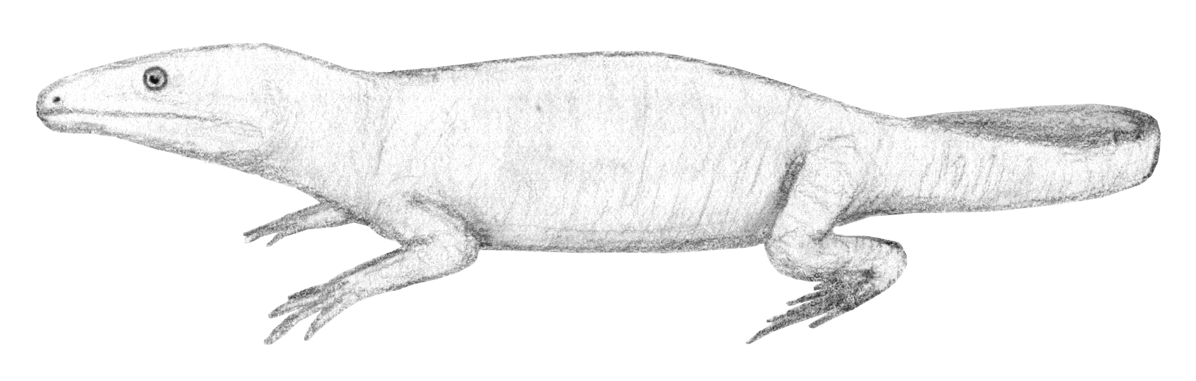 Life restoration of Bruktererpeton in a resting position. References Kuhn-Schnyder, Emil; Rieber, Hans (1986) Handbook of Paleozoology. Johns Hopkins University Press. (pg. 205)